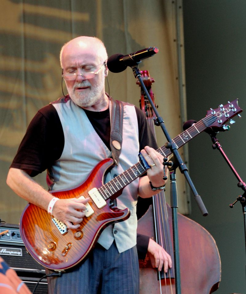 Jeremy Spencer performing at the Chicago Blues Festival 2009. Location: Petrillo Music Shell in Grant Park, Chicago, IL, USA